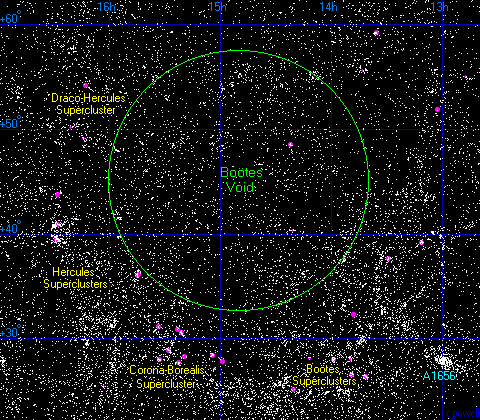 A map of the Boötes void. Credits: Powell, Richard. Atlas of the Universe Copyrights information